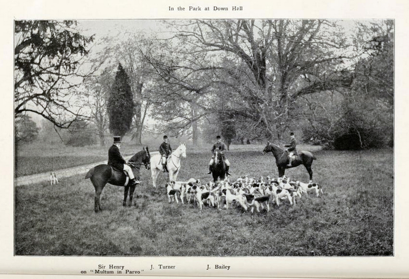 Henry Selwin-Ibbetson, 1st Baron Rookwood (1826-1902) with his hounds on his Down Hall estate, in Leaves from a Hunting Diary in Essex (1900).